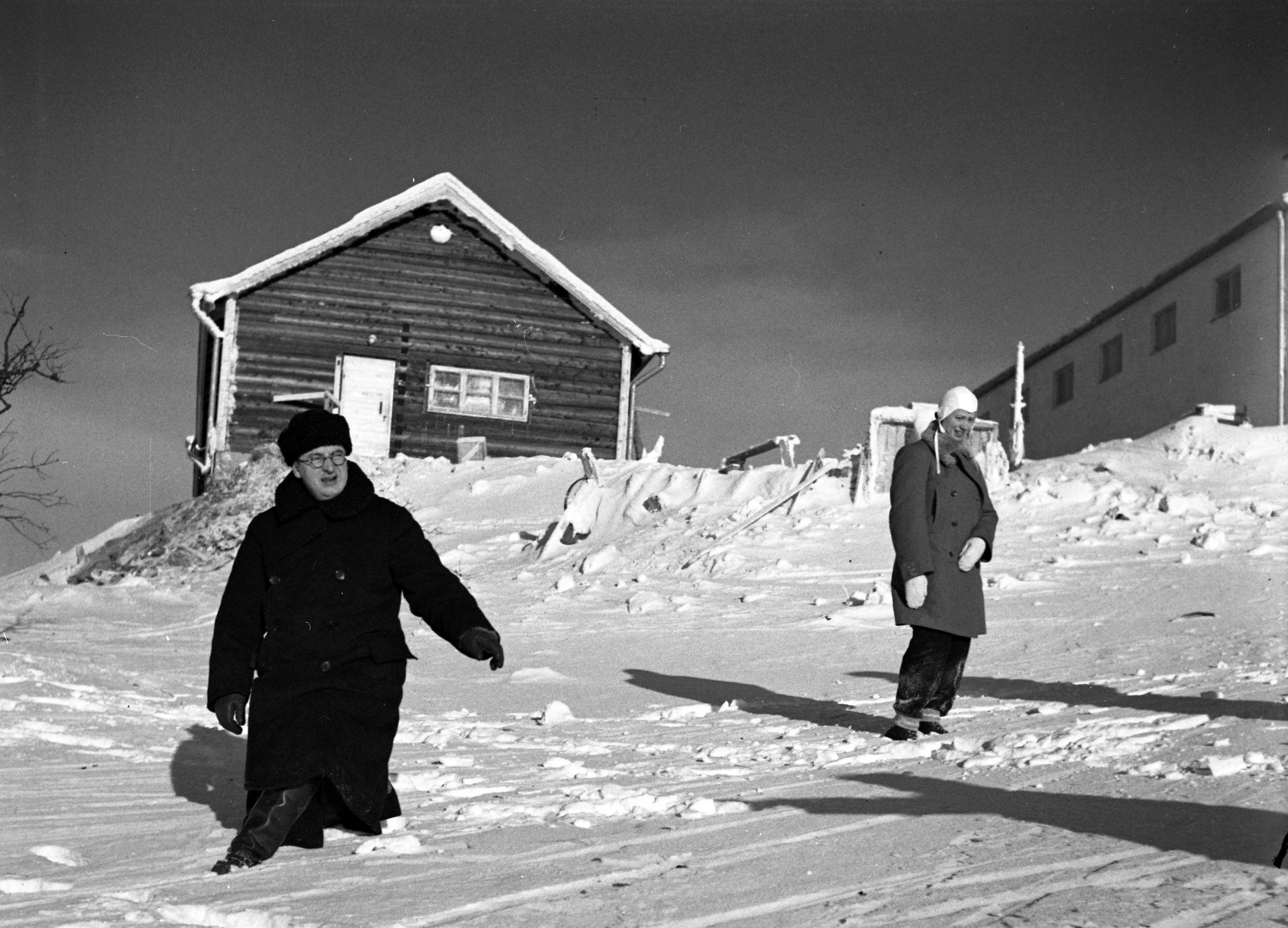 Photograph of the Finnish architect Väinö Vähäkallio (1886–1959) and Meri Hämäläinen near to the sauna building of the old Pallas Hotel, Pallastunturi.